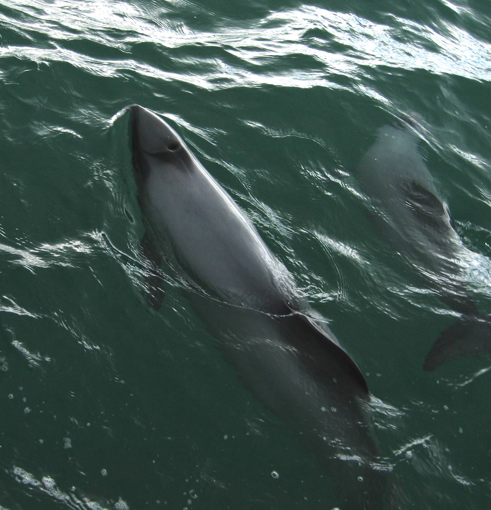 Hector's Dolphins swimming at Porpoise Bay, in the Catlins, New Zealand.